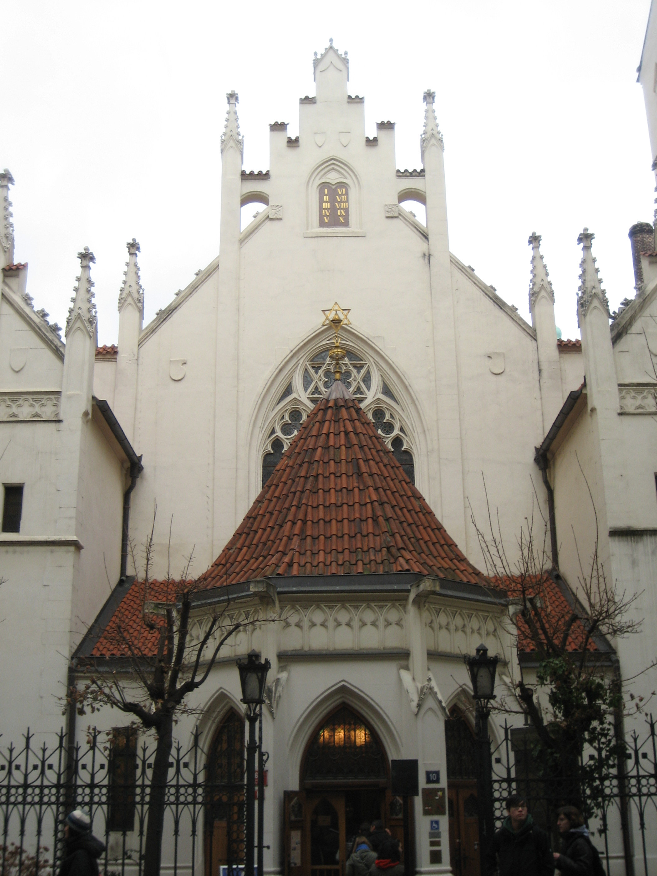 Jewish Synagogue in Prague, Czech Republic.